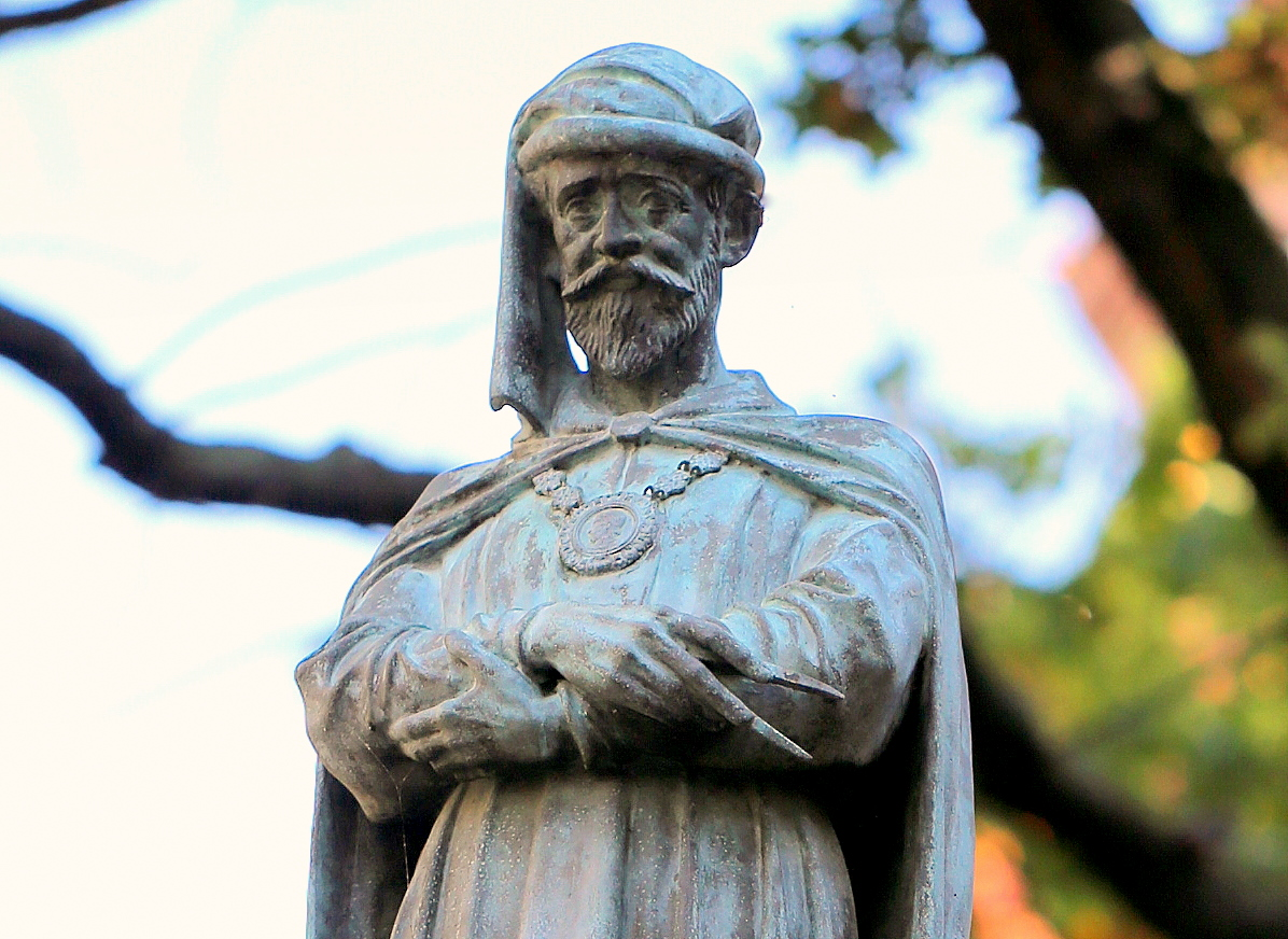 A detail of the Memorial Well of Samu Pecz by Lajos Berán, Gyula Sándy (architect), Béla Rerrich (architect) in 1929. - Szilágyi Dezső Square, Budapest District I., Hungary.